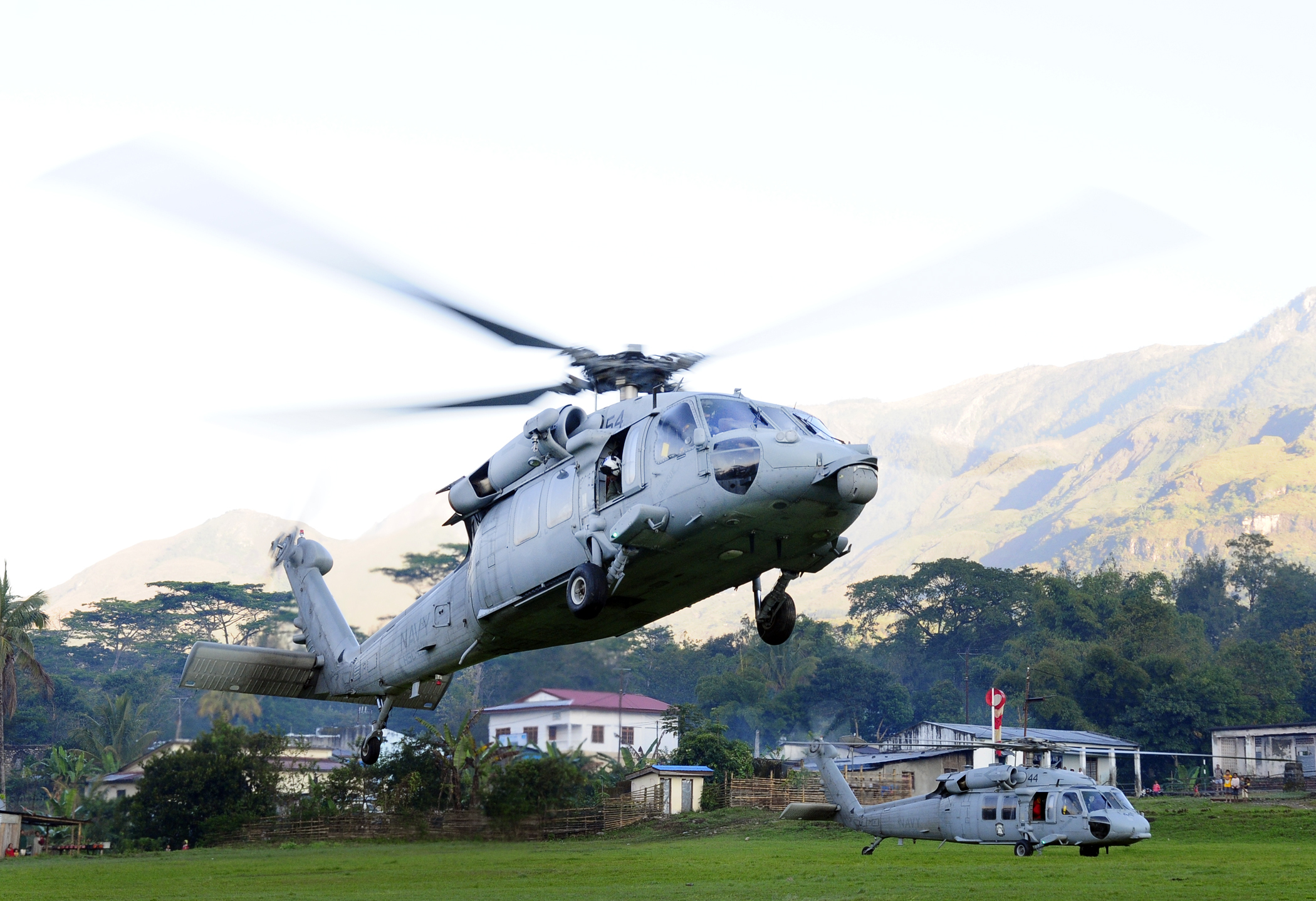 AINARO, Timor-Leste (June 19, 2011) MH-60S Sea Hawk helicopters assigned to Helicopter Sea Combat Squadron (HSC) 23 transfer personnel to support a Pacific Partnership 2011 medical community service project. Pacific Partnership is a five-month humanitarian assistance initiative that will make port visits to Tonga, Vanuatu, Papua New Guinea, Timor-Leste and the Federated States of Micronesia. (U.S. Navy photo by Mass Communication Specialist Seaman John Grandin/Released)